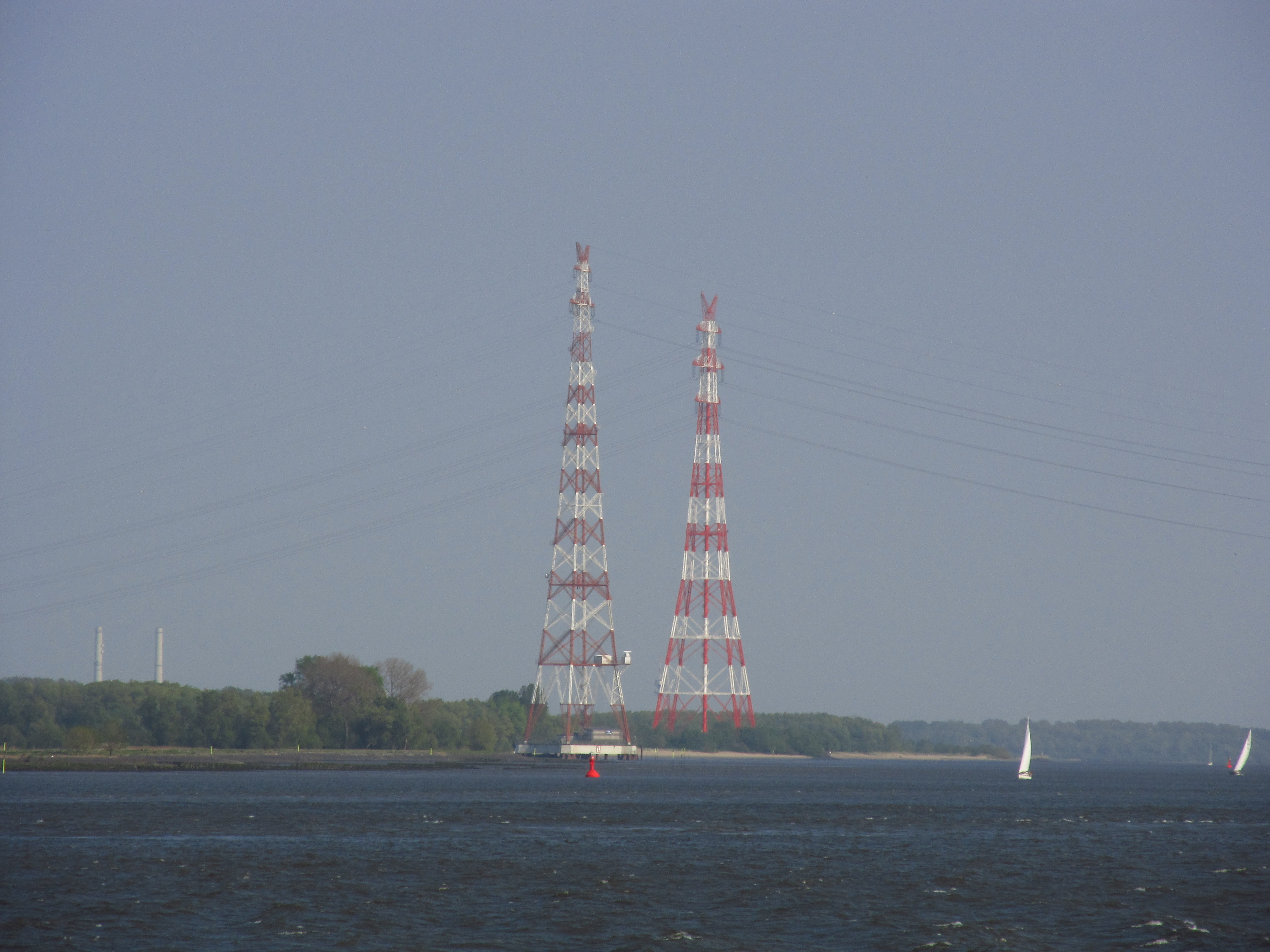 The suspension towers of the Elbe Crossing 1 (foreground) and 2 (background) located on the island Lühesand